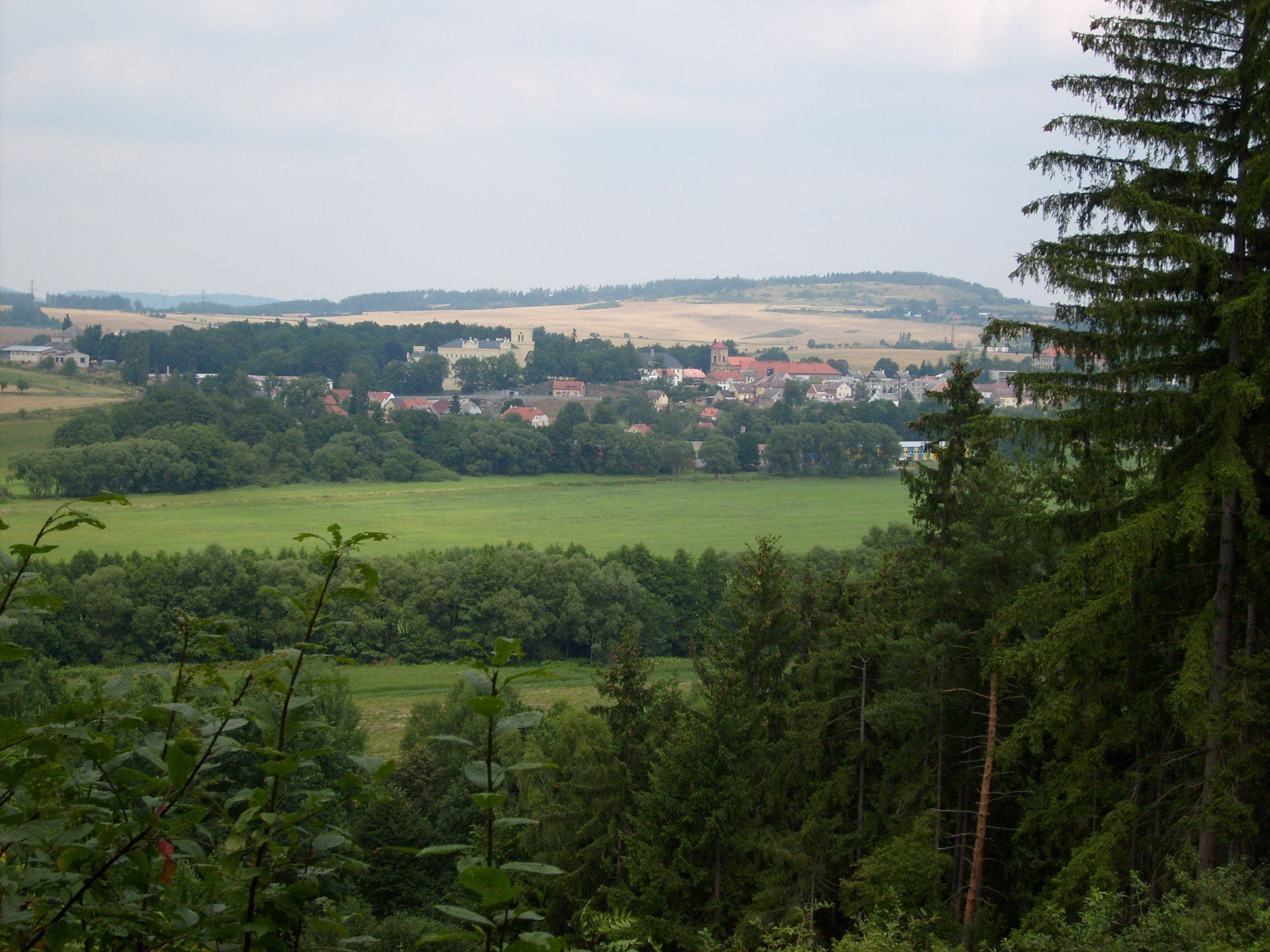 View of Chyše, Karlovy Vary Region, Czech republic